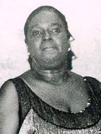 Carmen McRae (1980)